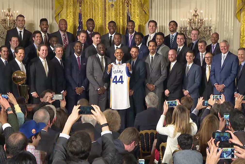 On February 4, 2016, President Obama congratulated the Golden State Warriors, the 2015 NBA champions, at the White House.